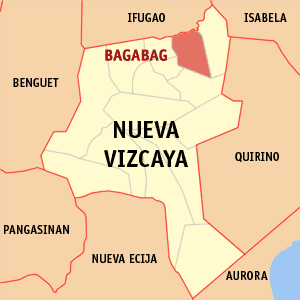 Map of Nueva Vizcaya showing the location of Bagabag